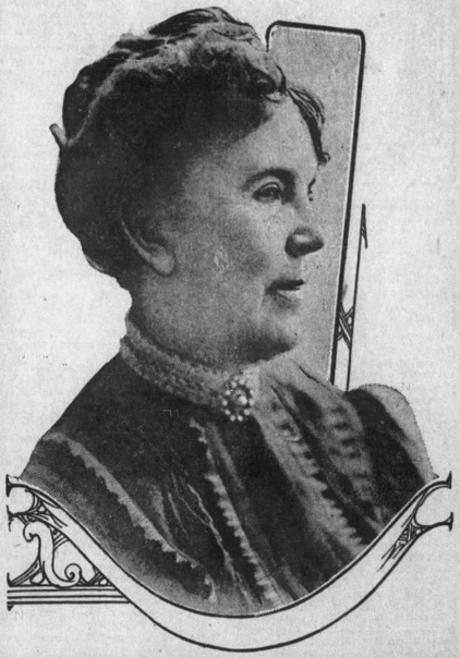 Ella Hamilton Durley, from a 1916 publication